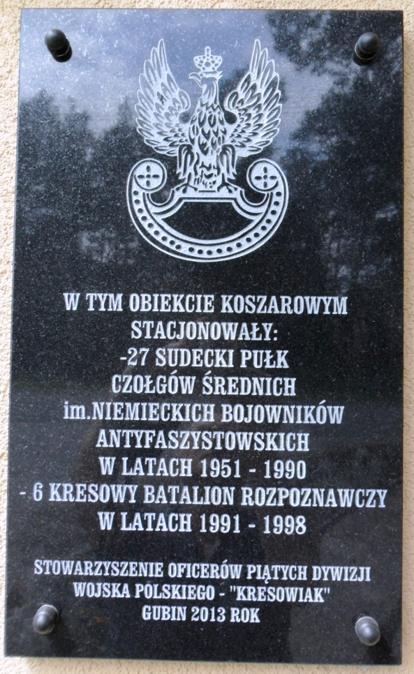 Commemorative plaque on the building of the Office of Passes